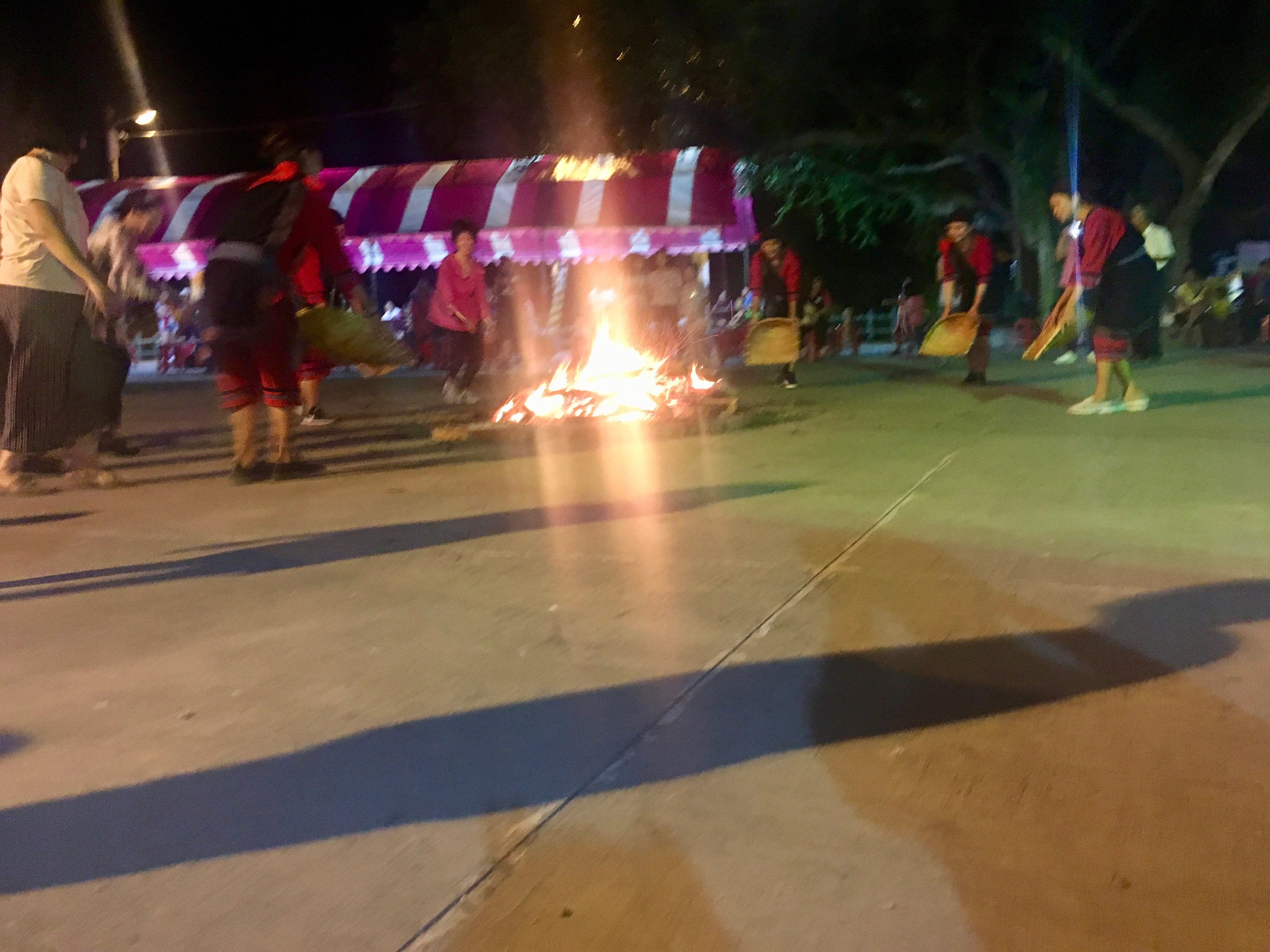 Indigenous dance performance on the Night Ceremony of Lupu, Tianliao, Kaohsiung City.